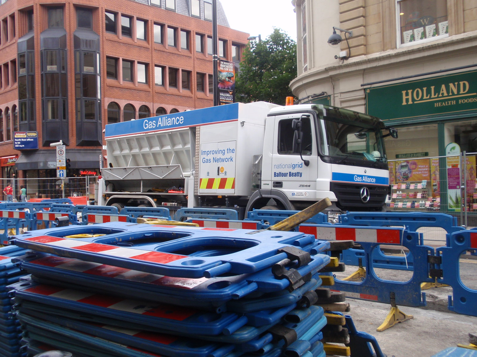 suction excavator: view across site